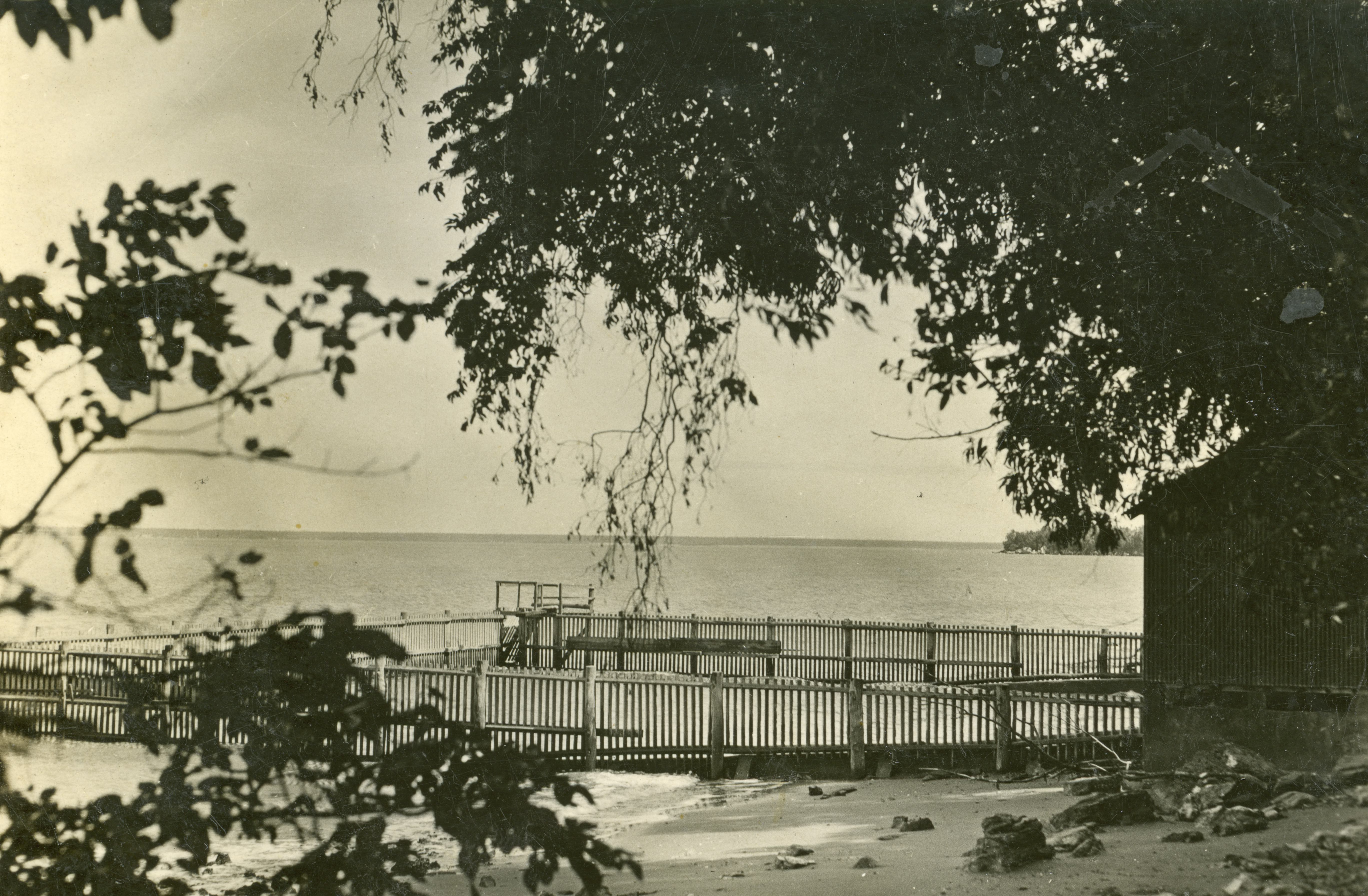 Lameroo Baths, Darwin in the Northern Territory of Australia in the 1930s.